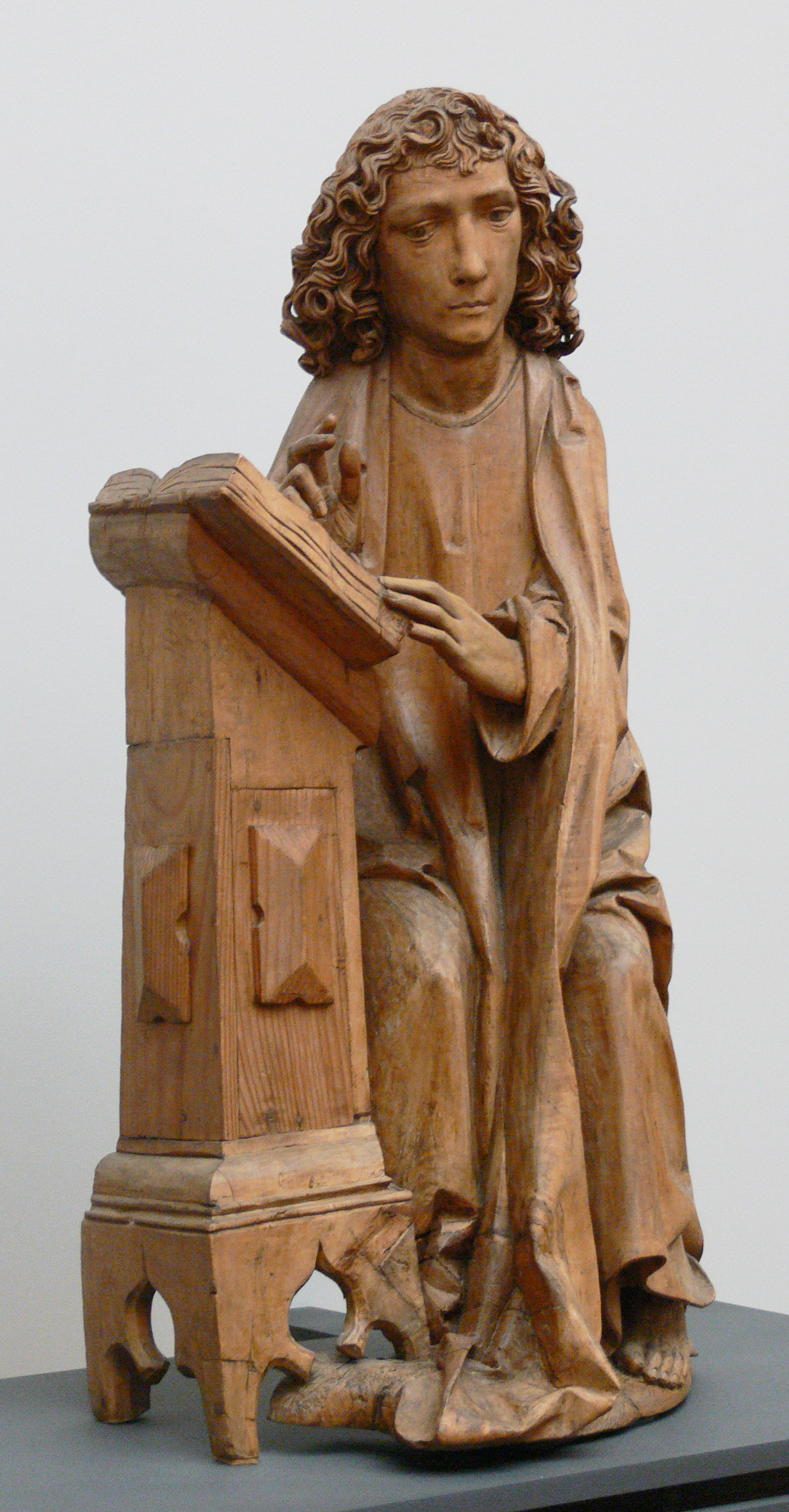 Tilman Riemenschneider: John the Evangelist, 1490–1492, limewood; part of a group of four evangelists, from the pedestal of the high altar of St. Magdalen Church, Münnerstadt. Skulpturensammlung (group: inv. nos. 402-405, acquired in 1887), Bode-Museum Berlin.